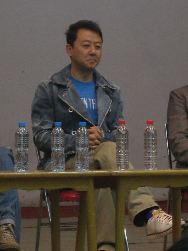 Guo Tao (actor)